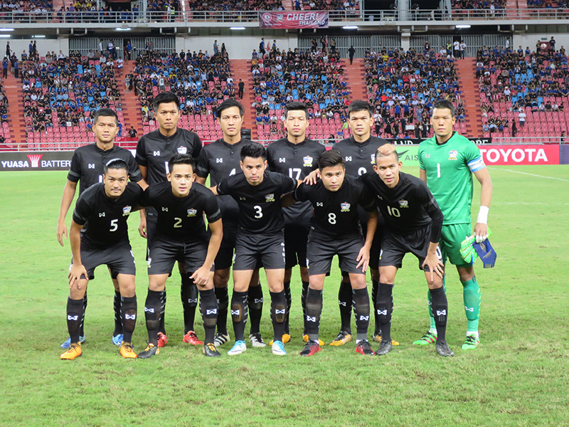 Thailand national team during King's Cup 2017